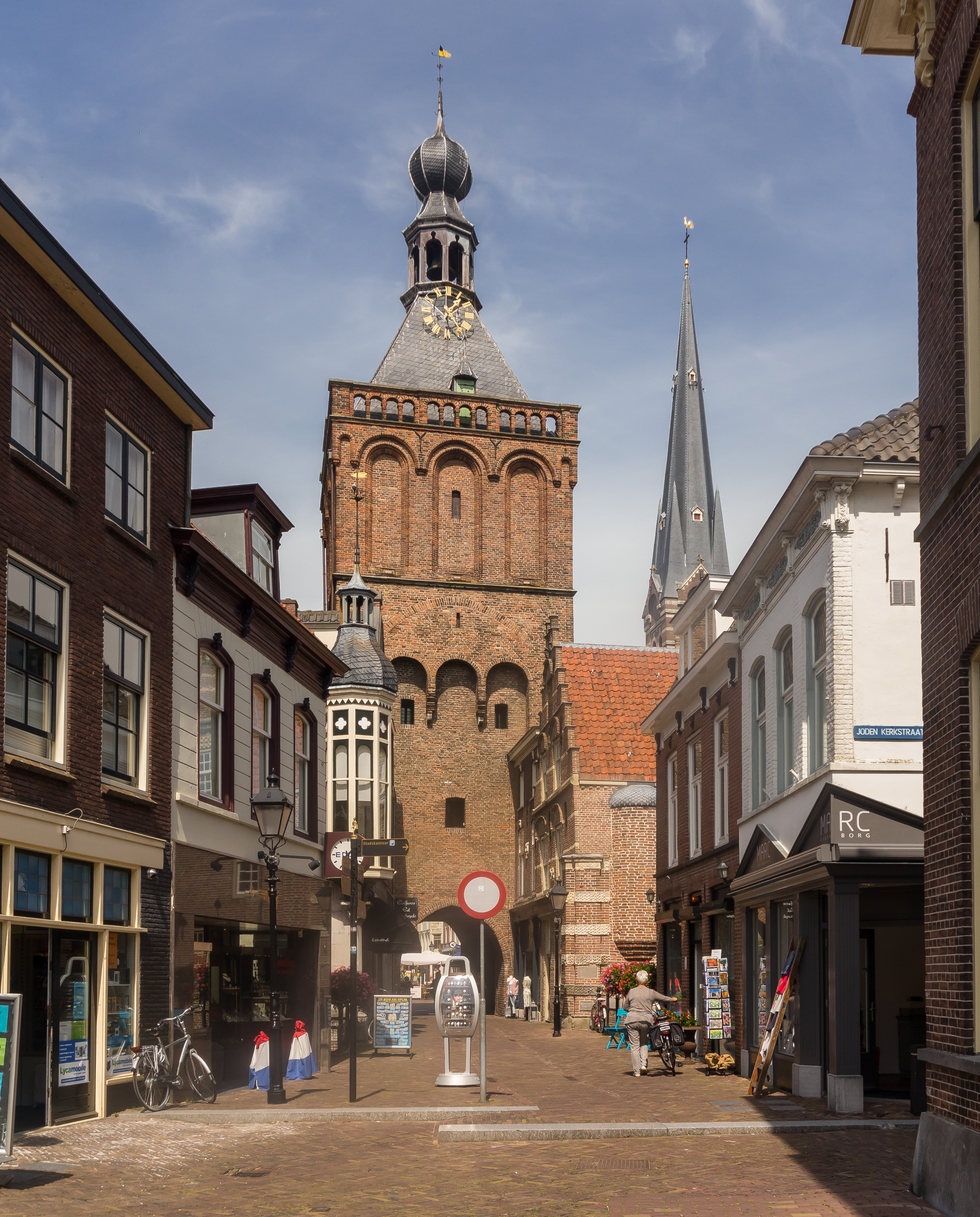 Culemborg, towngate: de Binnenpoort